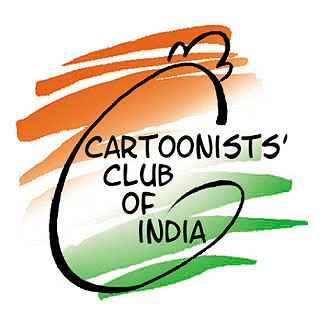 Cartoonists Club of India